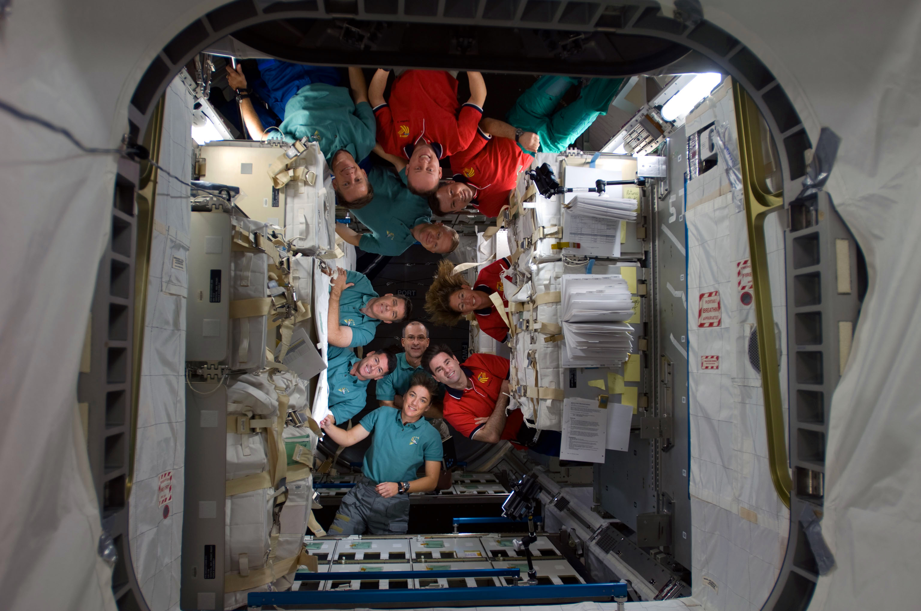 Following a space-to-Earth press conference, members of the International Space Station and Space Shuttle Endeavour crews posed for a group portrait on the orbital outpost. Astronaut Donald Pettit appears at photo center. Just below Pettit is astronaut Heidemarie Stefanyshin-Piper. Clockwise from her position are astronauts Shane Kimbrough, Steve Bowen, Eric Boe, Chris Ferguson and Michael Fincke, along with cosmonaut Yury Lonchakov, and astronauts Sandra Magnus and Gregory Chamitoff.